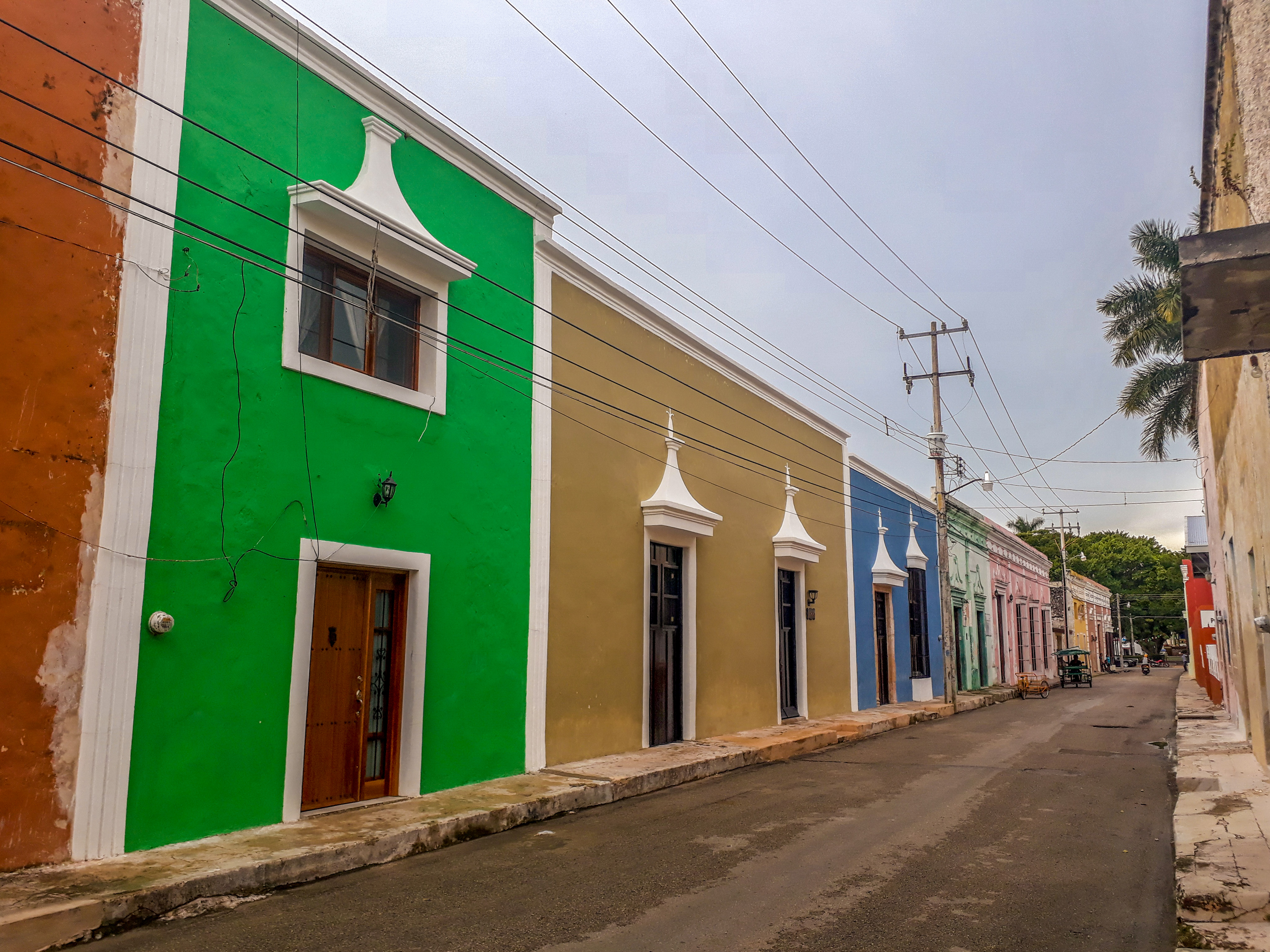 Houses in downtown Espita.